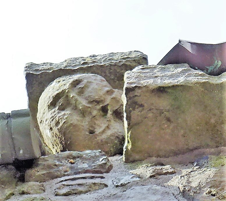 False Menteith gargoyle, Dumbarton Castle, Dunbartonshre - detail. Said to be Sir John Menteith who was governor of the castle and captured Sir William Wallace.